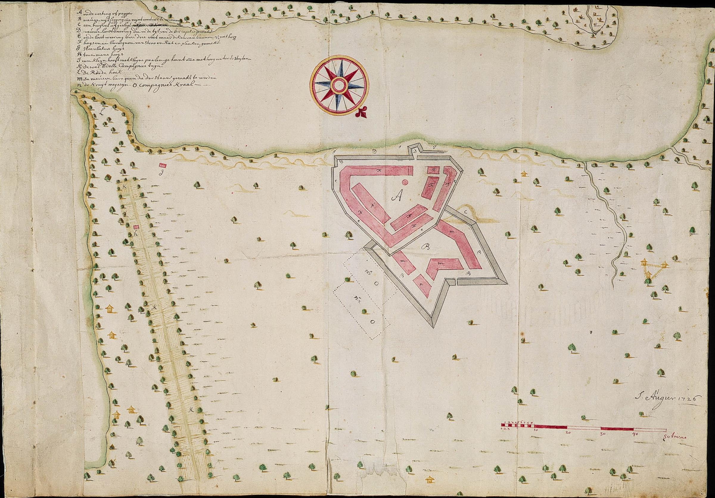 According to the Leupe (NA) catalogue, the original title reads: Plan als voren, met de nieuwe uitlegging enz, this refers to the title of VEL0858: Plan van de Oude Vesting A en de Nieuwe Vesting B. Architectural drawing of the new fort Rio de la Goa. Key: A-N